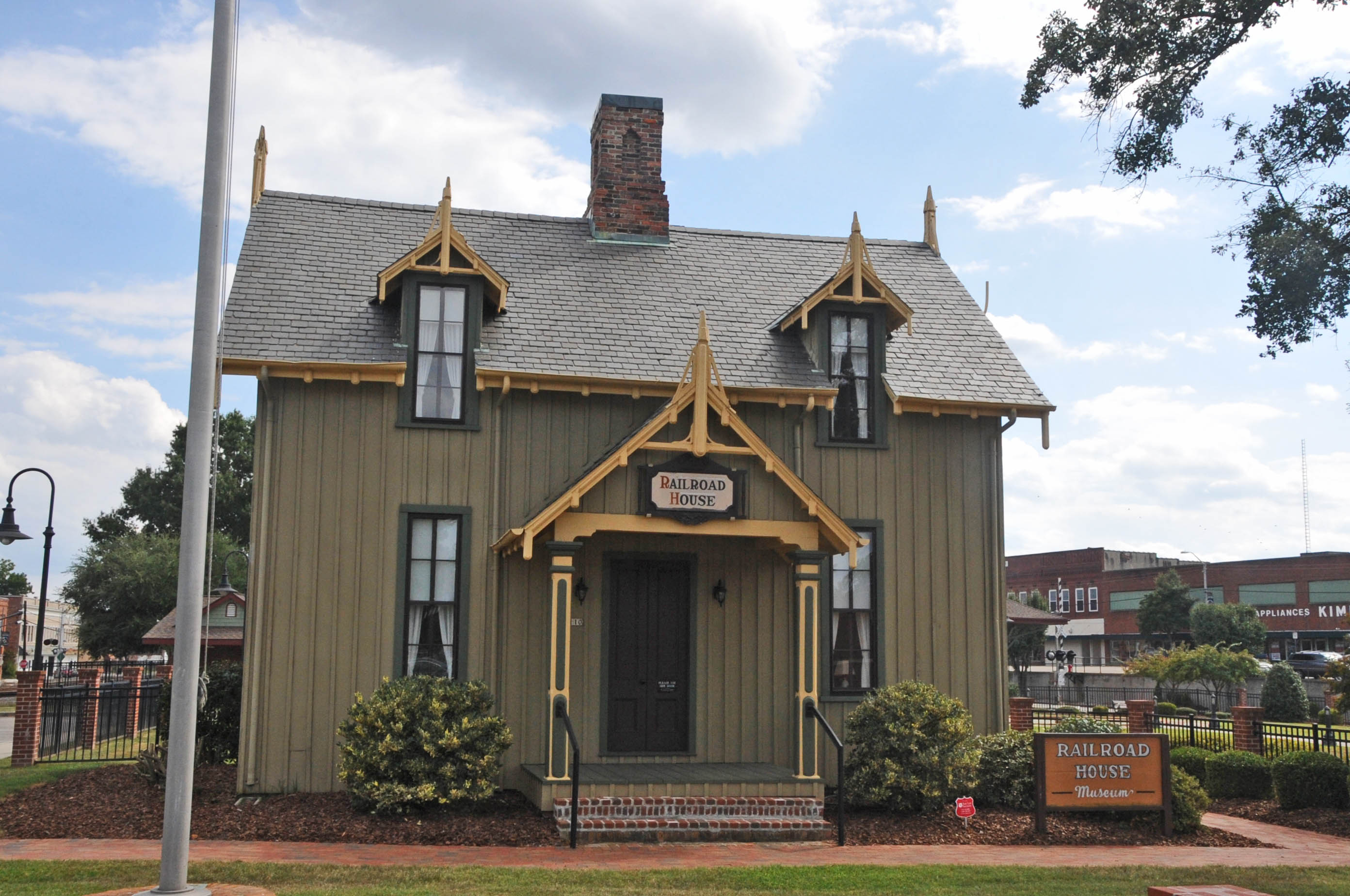 VICTORIAN GOTHIC; CIRCA 1850-1854